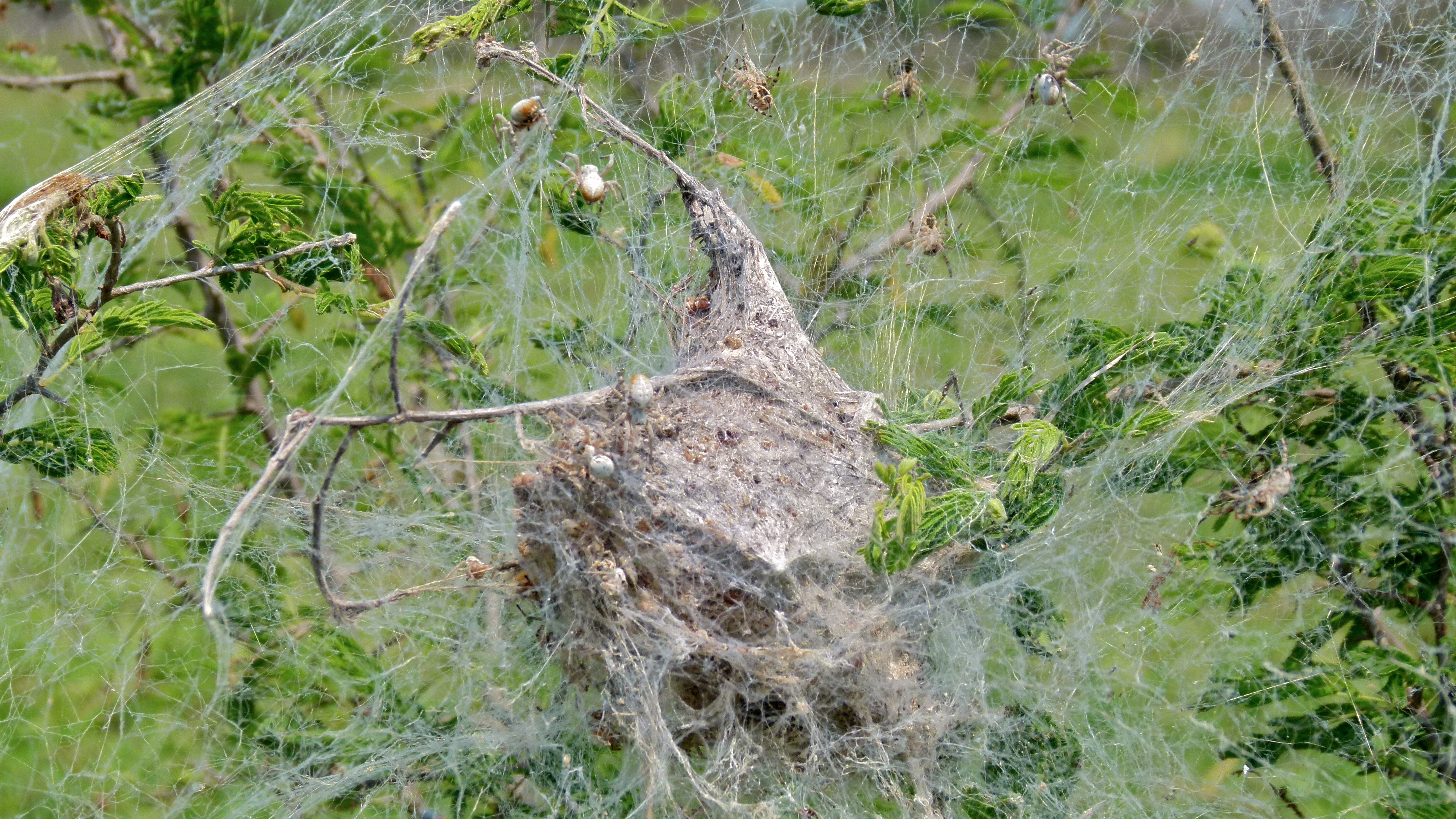 African social spiders perched on their web beside the S37 Trichardt Road in the central Kruger National Park, Mpumalanga, South Africa